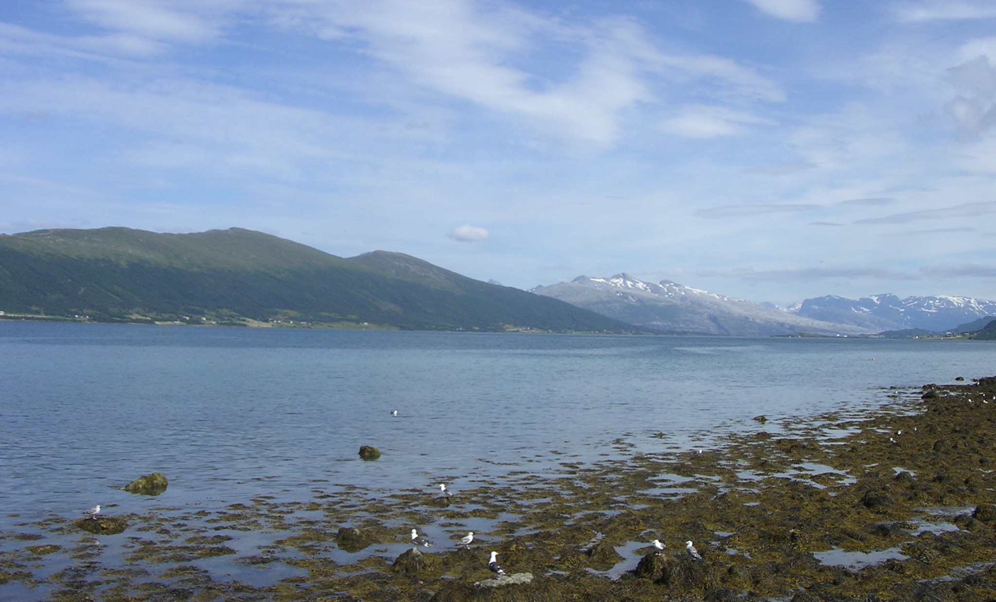 Island Handnesøya in Nesna municipality, Nordland, Norway. Northeastern part of the island viewed from Nesna.